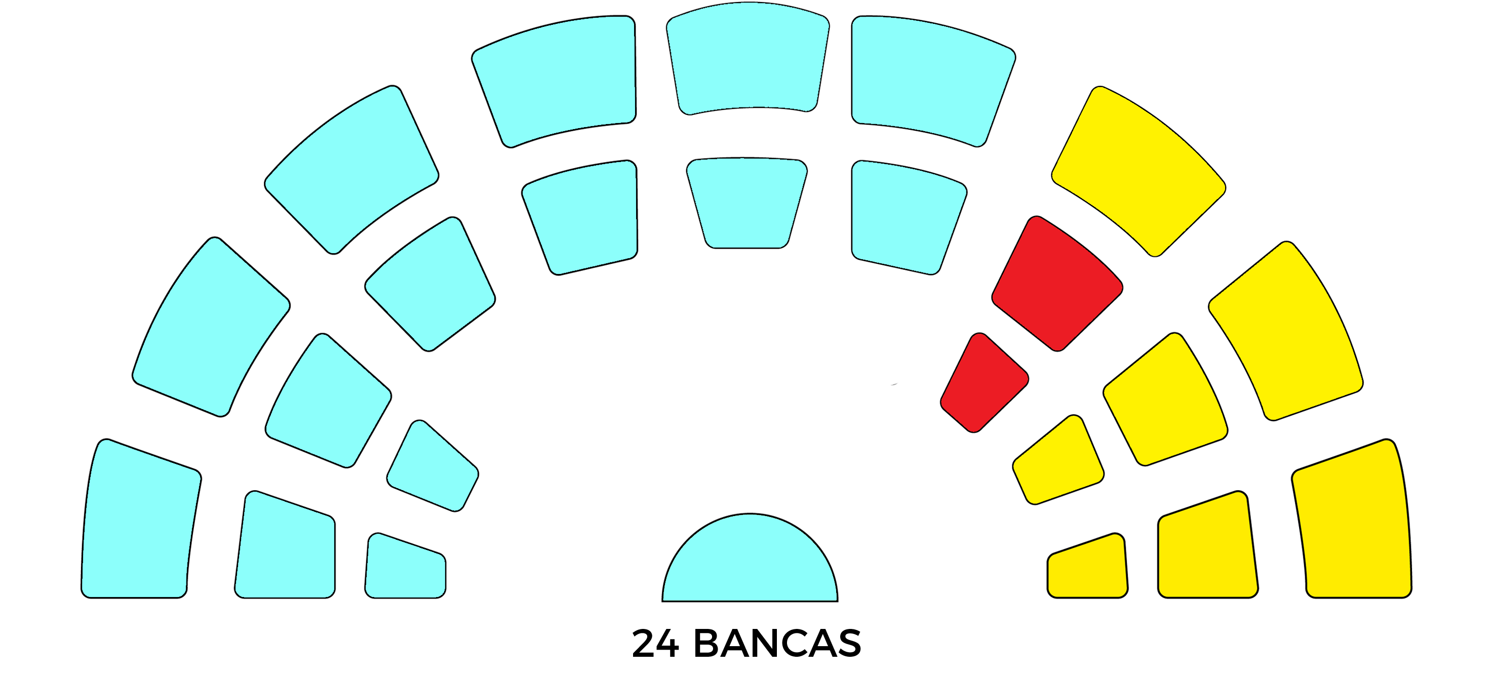 Deliberative Council of the municipality of Esteban Echeverría